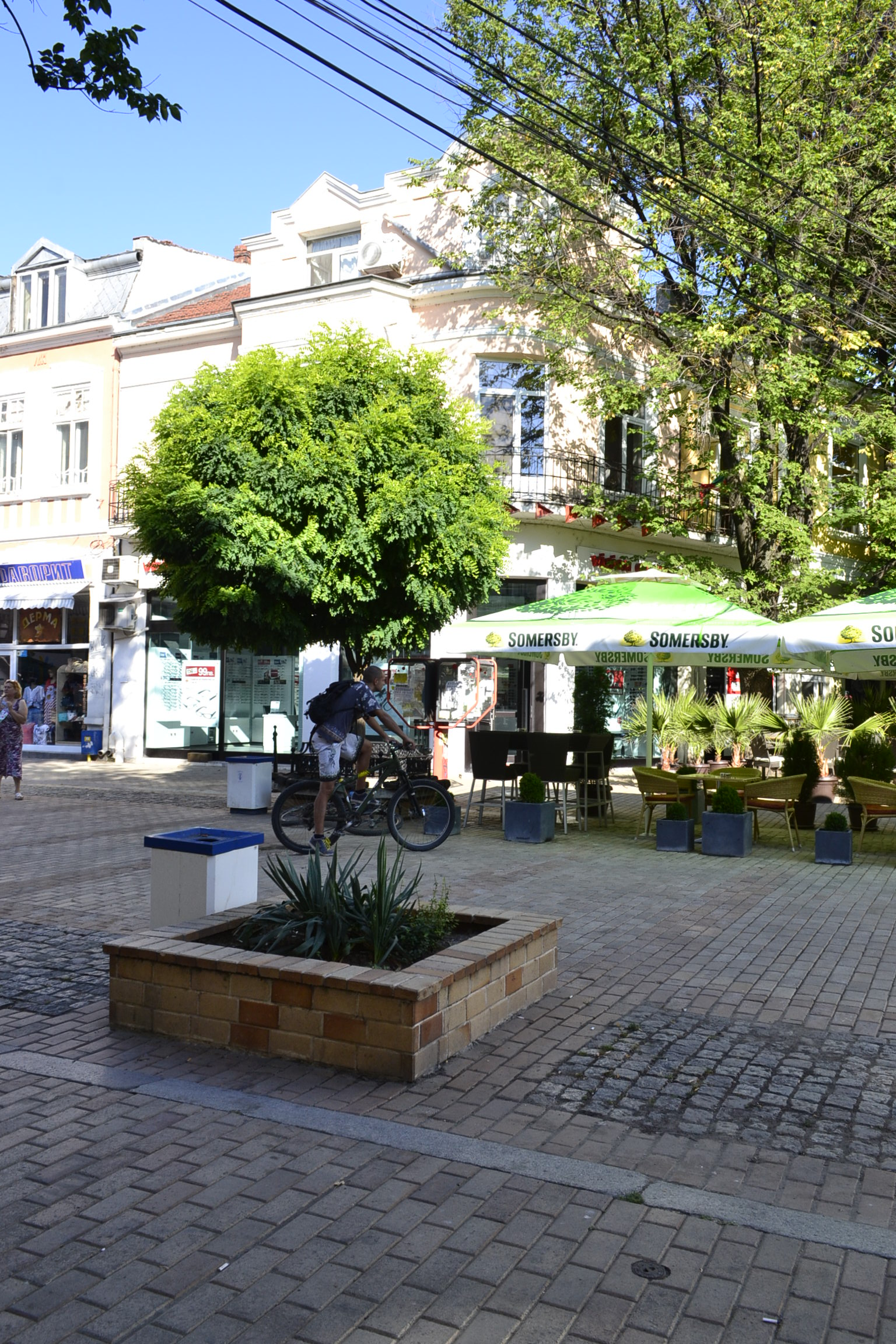 Himchi as it looks today